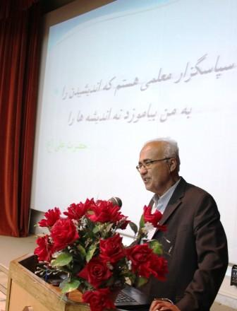 Jafar Zafarani's retirement celebration